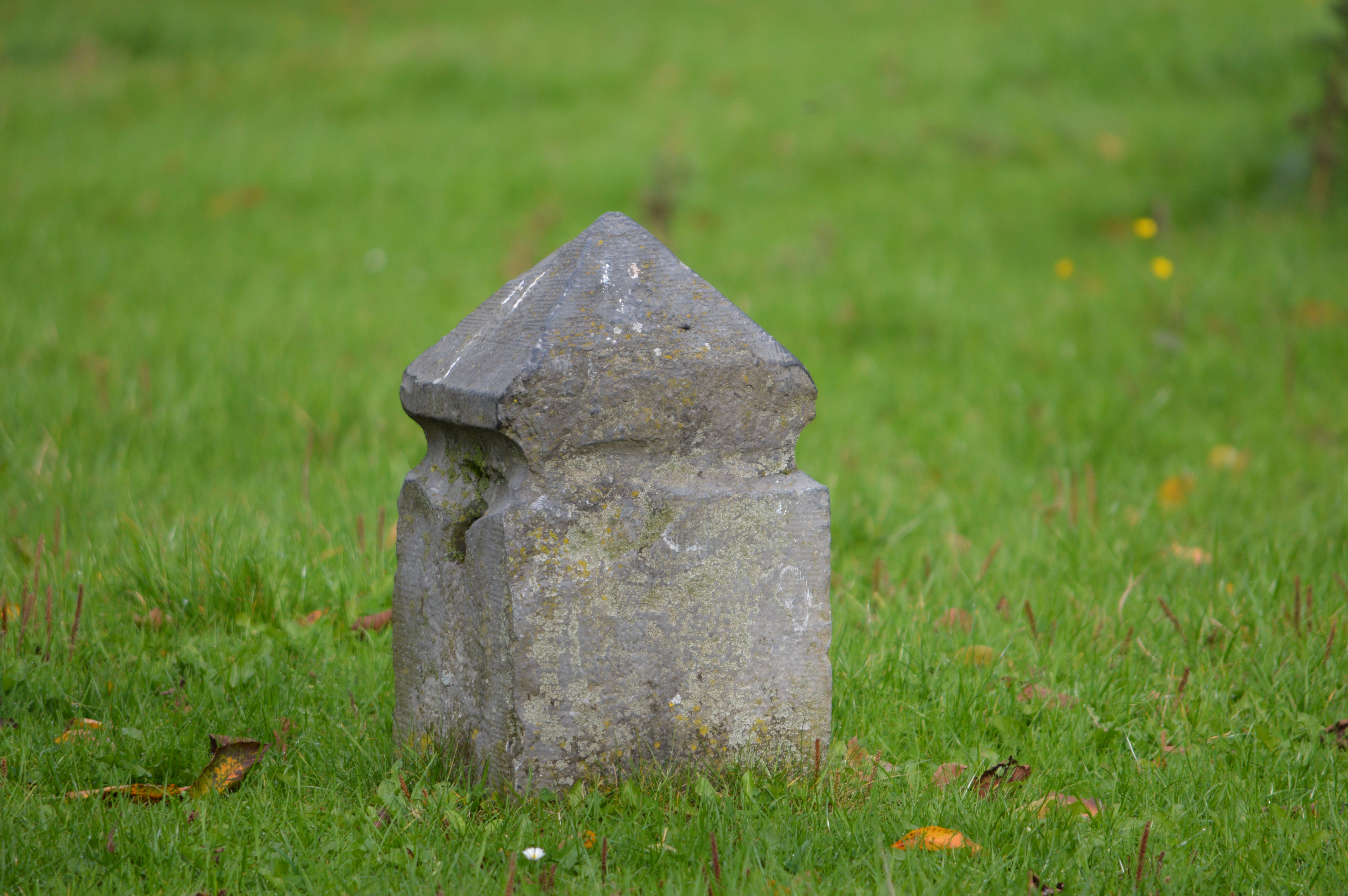 Ancient Saint Hadelin 1 pit Soumagne, Belgium